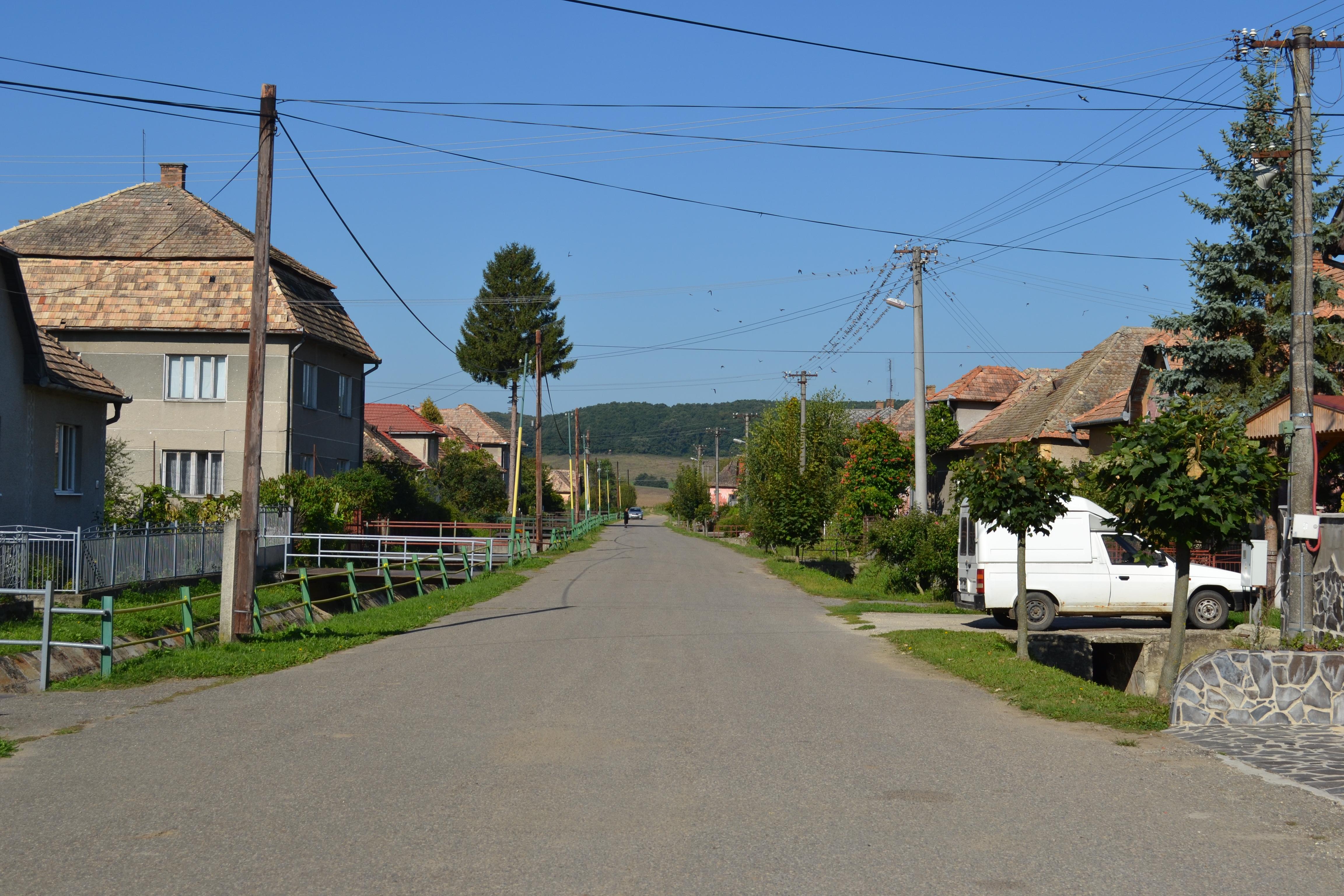 Street of the village Gemerček